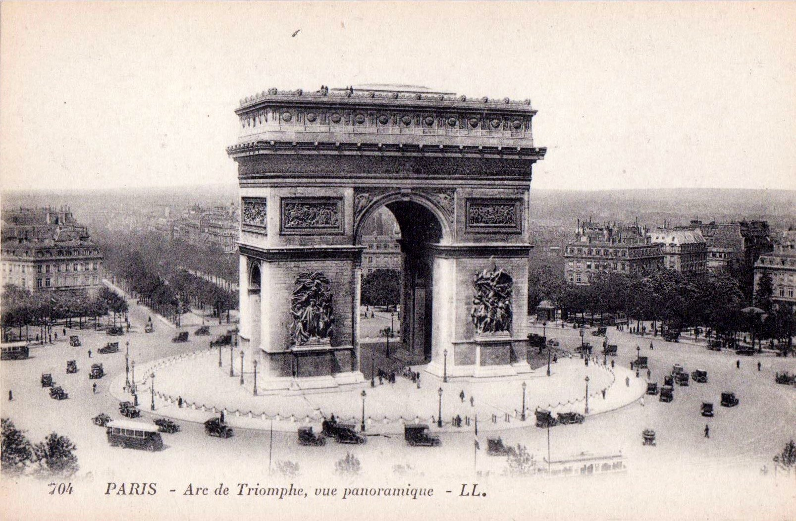 Paris. Arc de Triomphe. Postcard, c.1920. Publisher: Lévy et Neurdein réunis. Paris.